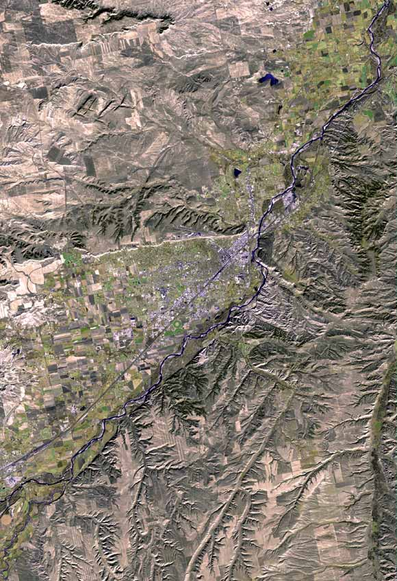 Satellite image of Billings, Montana